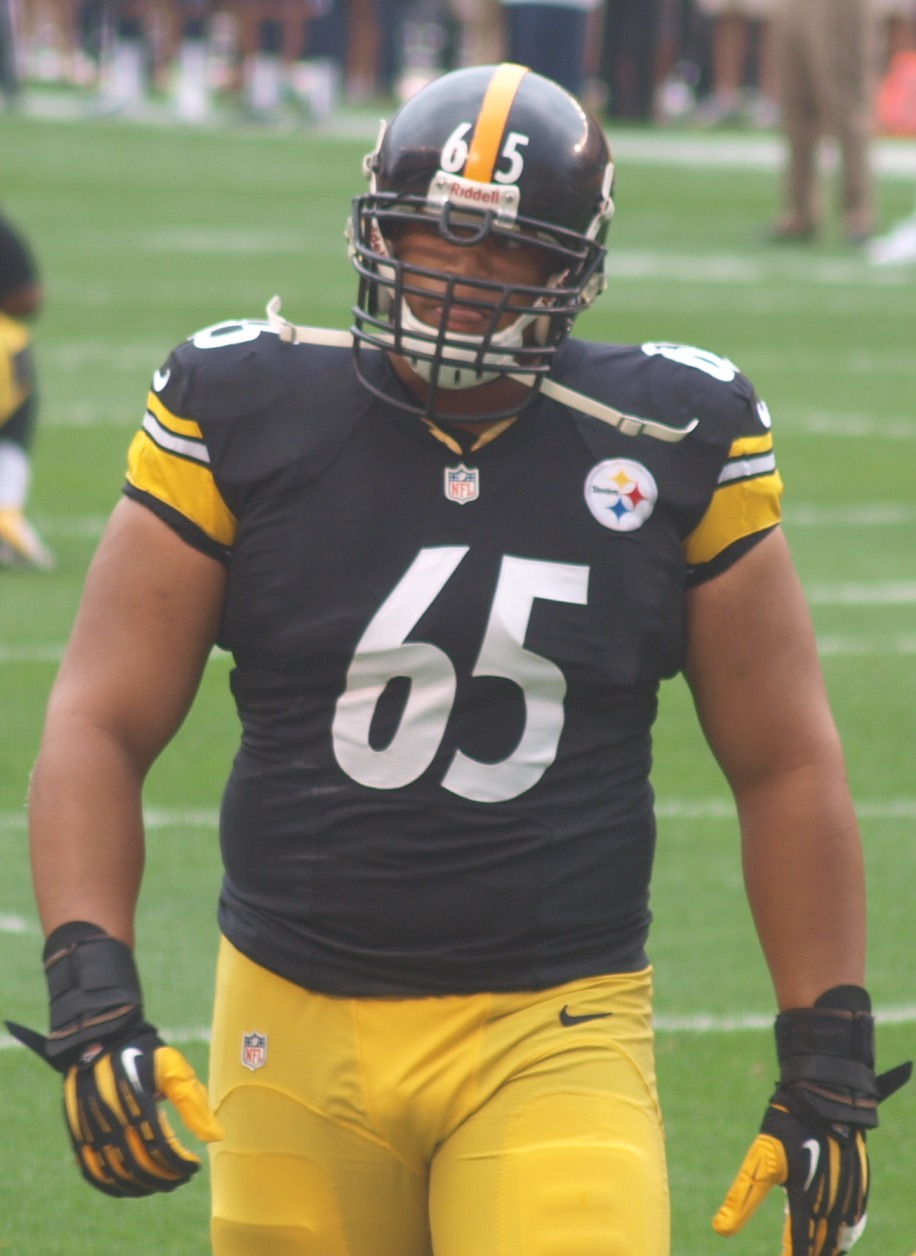 Pittsburgh Steelers defensive end, Al Woods, in the 2013 season.